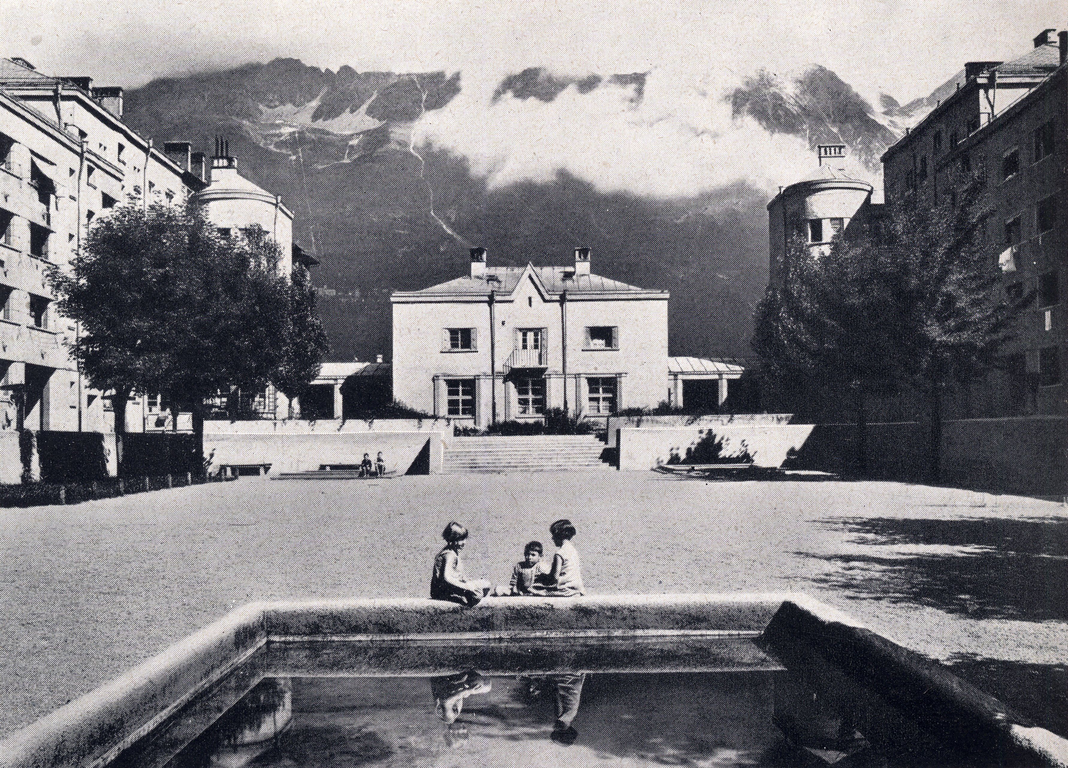 Social housing project "Pembaublock" (court)